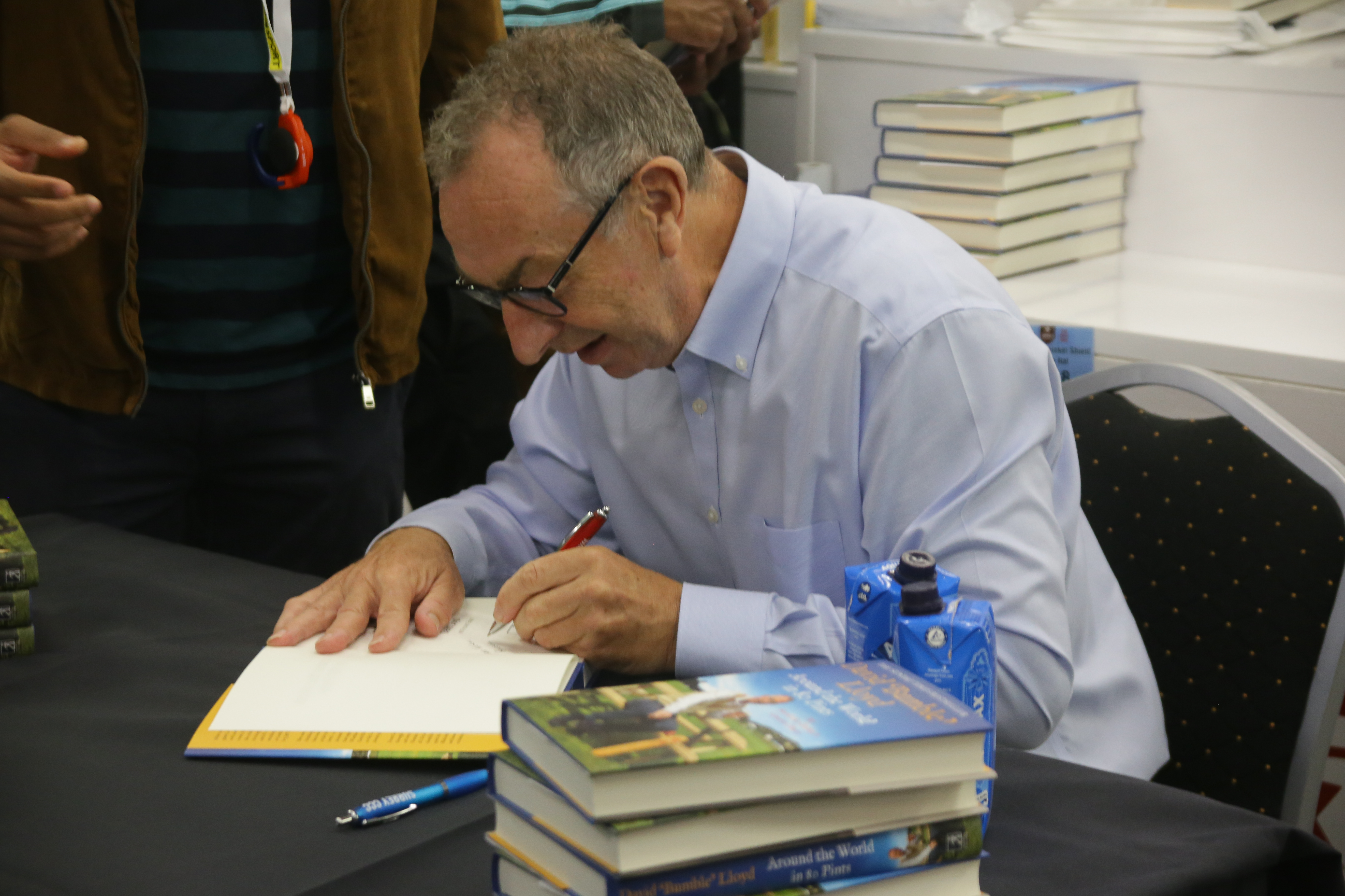 David Lloyd signing copies of his new book "Around the World in 80 Pints" at The Oval, London, Sept 2018